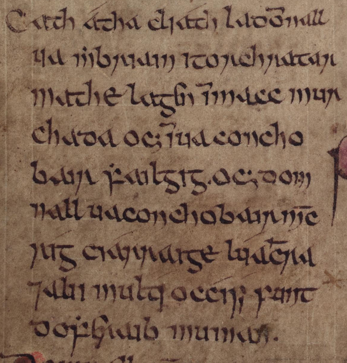 An excerpt from folio 34r of Bodleian Library MS Rawlinson B 503 (the Annals of Inisfallen). The excerpt reads in Gaelic "Cath Átha Clíath la Domnall Ua m-Briain i torchratar mathe Lagen im macc Murchada ocus im Ua Conchobair Failgig, ocus Domnall Ua Conchobair mc. ríg Cíarraige Lúachra & alii multí occísí sunt do feraib Muman". The first man referred to is Domnall Gerrlámhach, King of Dublin (died 1135).